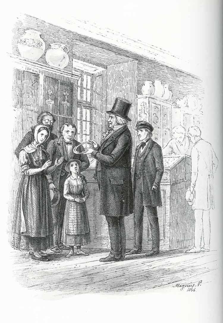 Christian Jürgensen Thomsen (1777 - 1863) showing visitors around in the Danish National Museum. COntemporary drawing. In the public domain as copyrights are expired.